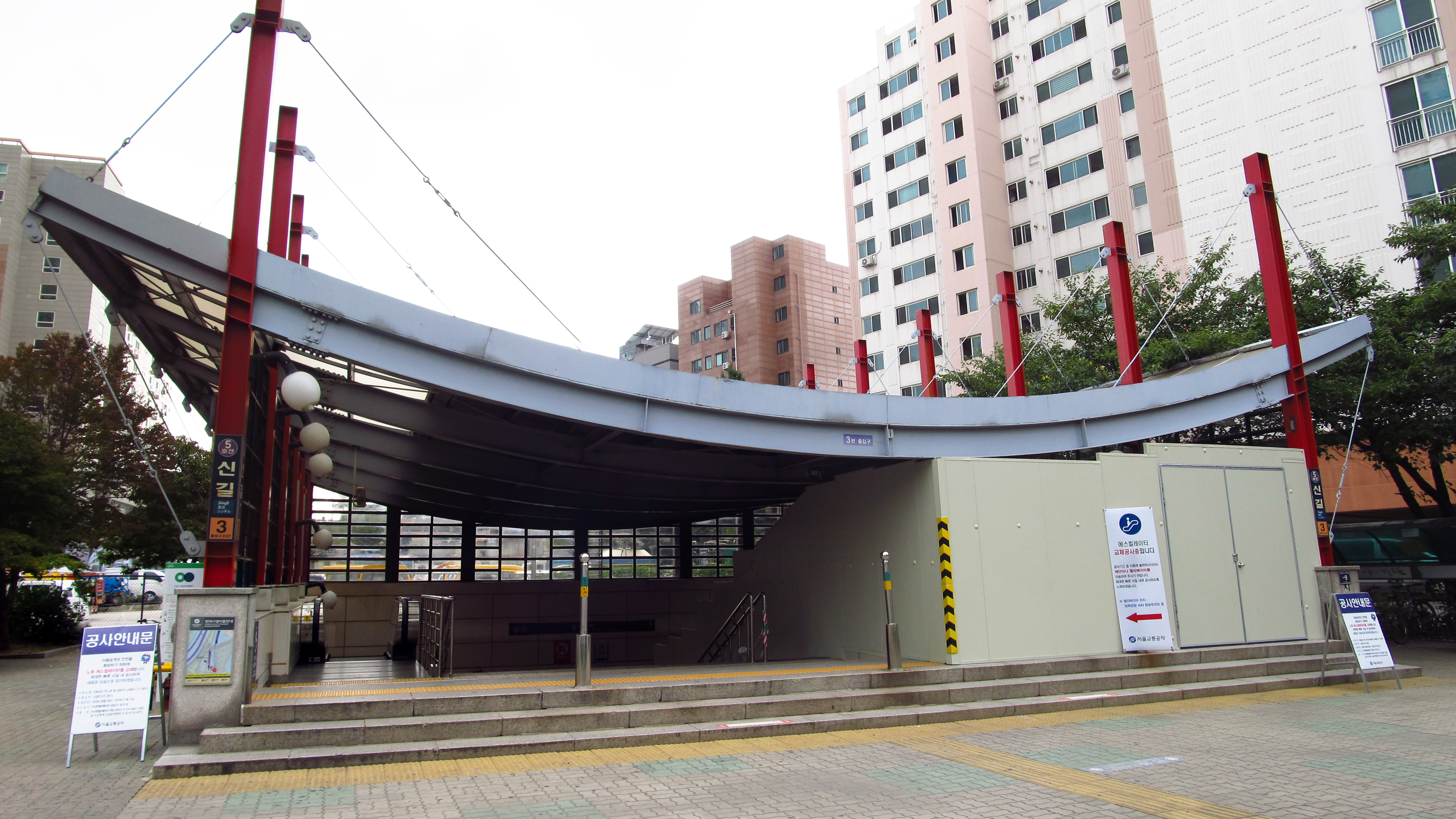 The no.3 entrance to Singil Station on the Seoul Metro Line 5 in Yeongdeungpo-gu, Seoul, Republic of Korea(South Korea)